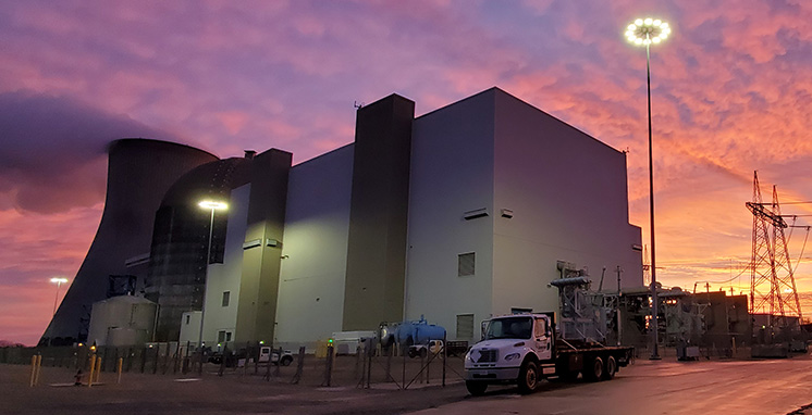 Dan Bradley, one of our senior resident inspectors #OntheJob, was literally up at the crack of dawn recently and on his way into the control room at Callaway nuclear power plant in Fulton, Mo., when he snapped this photo of the sunrise. The #COVID19 health emergency has resulted in our resident inspectors monitoring activities at #nuclear power plants remotely. They have frequent phone calls to plant officials, attending video meetings, and reviewing documents and data provided by our licensees. But they also get their boots on the ground making regular visits to their plants to fulfill their role as the “eyes and ears” of the agency. Visit the Nuclear Regulatory Commission's website at . Photo Usage Guidelines: Privacy Policy: . For additional information, or to comment on this photo contact: OPA Resource .